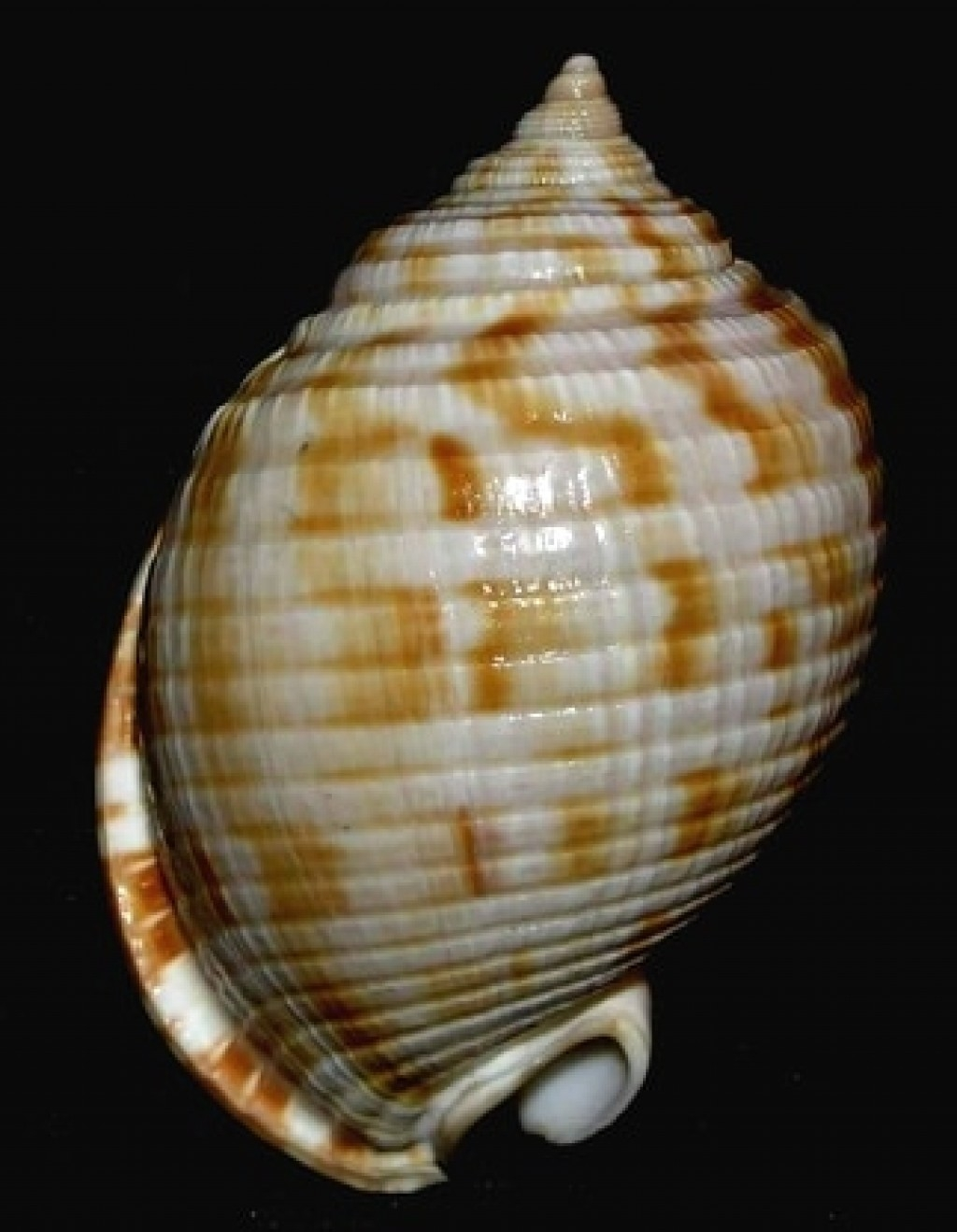 Seashell of Semicassis undulata (Gmelin, 1791)[1], in the past named Phalium granulatum undulatum (Gmelin, 1791). Specimen from own collection. Sicily, Italy. Biggest image.